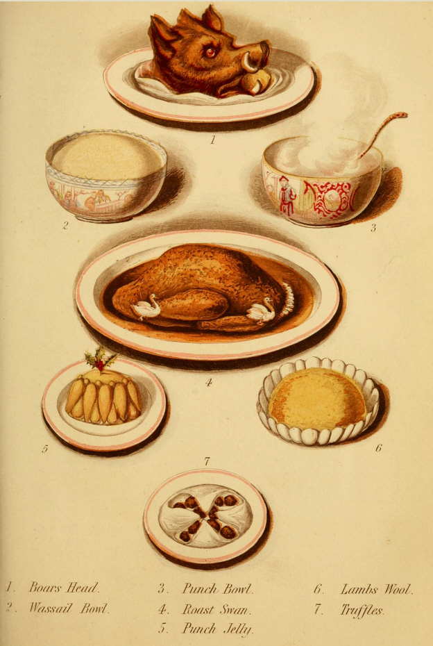 Color plate showing Christmas dishes : 1. Boar's Head; 2. Wassail Bowl; 3. Punch Bowl; 4. Roast Swan; 5. Punch Jelly; 6. Lamb's Wool 7. Truffles.; Related text, p. 308 & etc